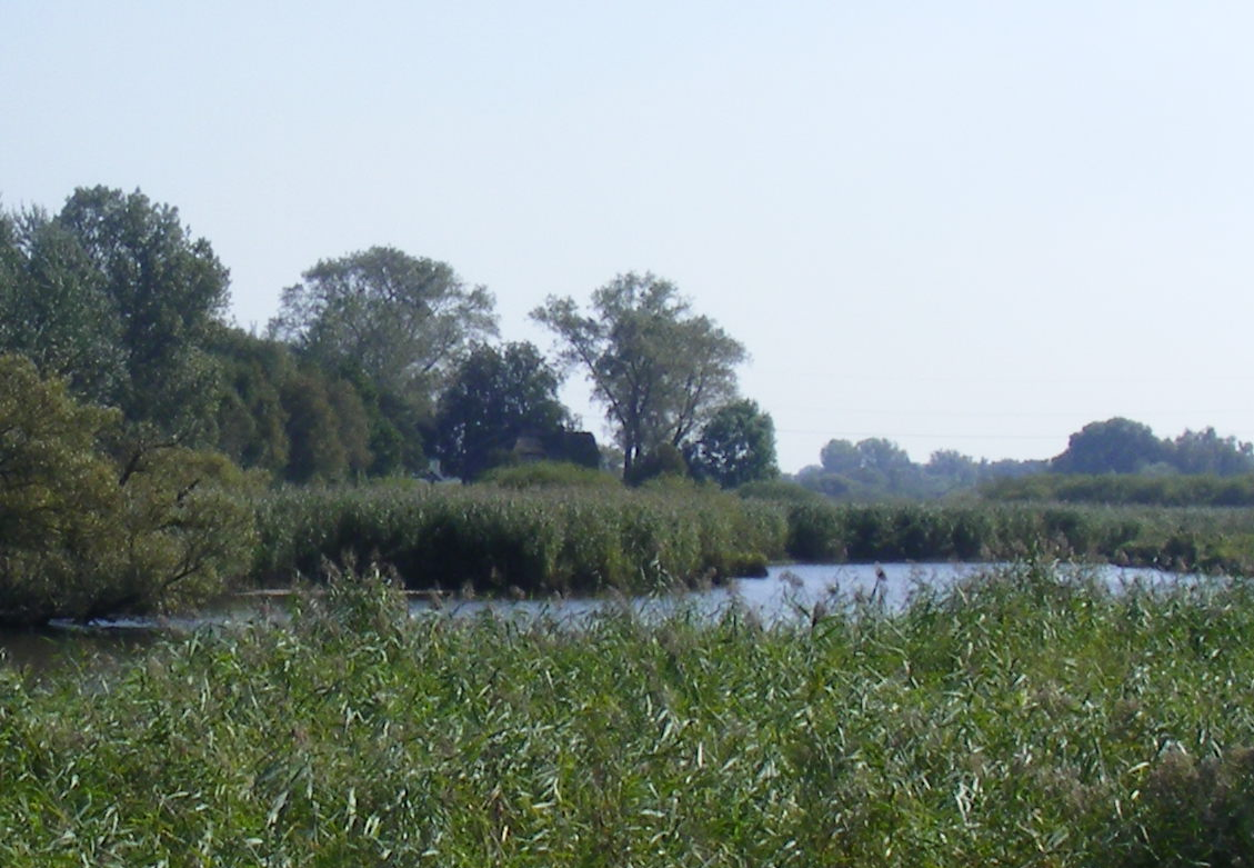 Mudflats in the freshwater region of lower Wümme in September with high tide